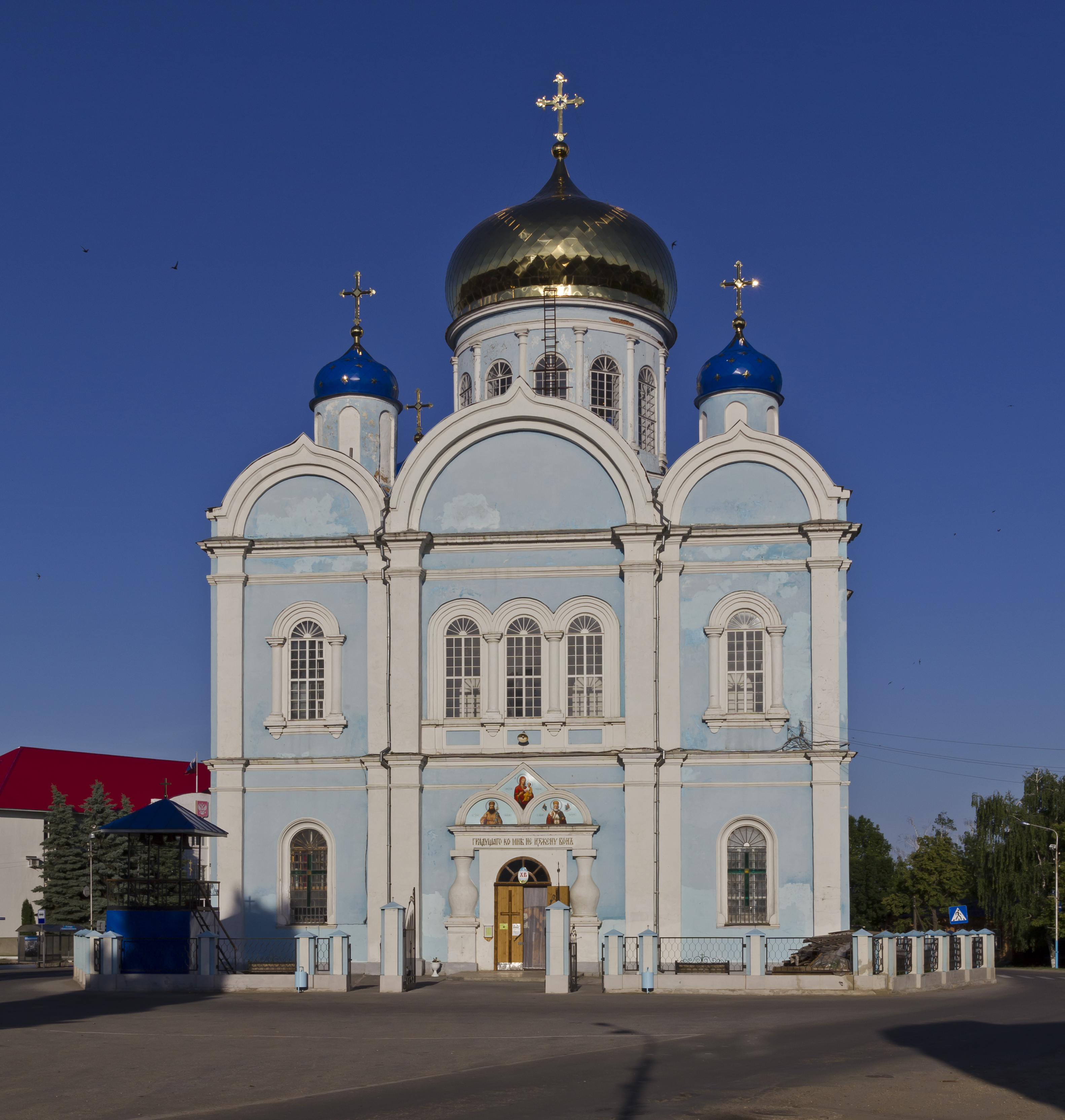 Cathedral of Our Lady of Tikhvin in Dankov, Dankovsky District, Lipetsk Oblast, Russia